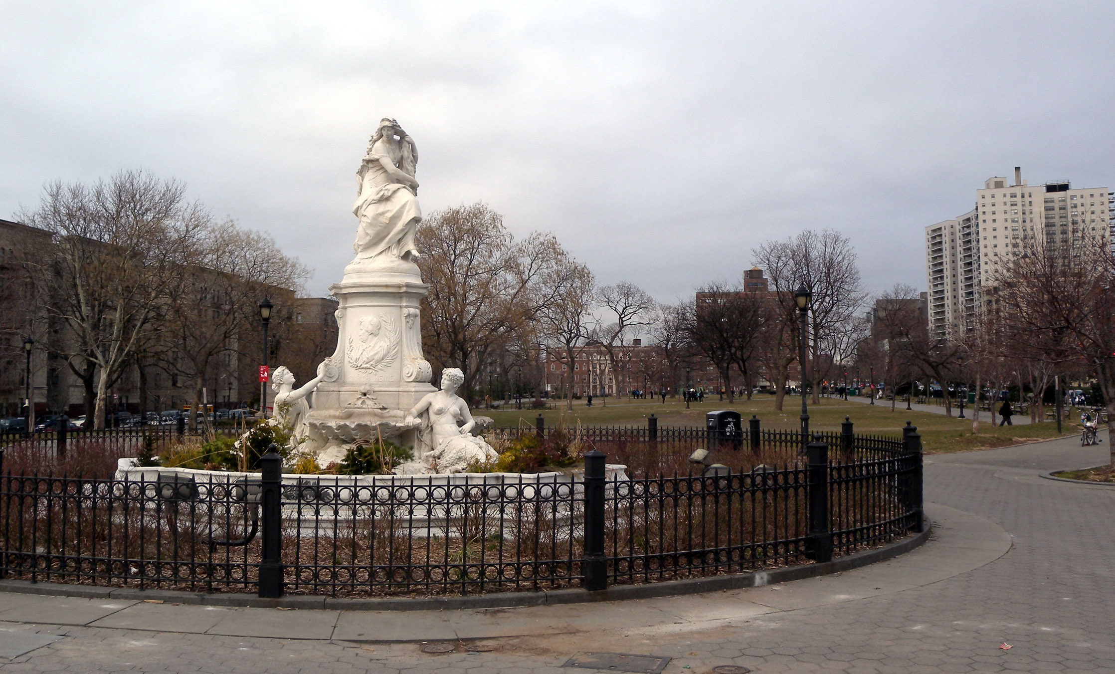 Looking north past the Loreley Fountain and along Kilmer Park on a cloudy afternoon.